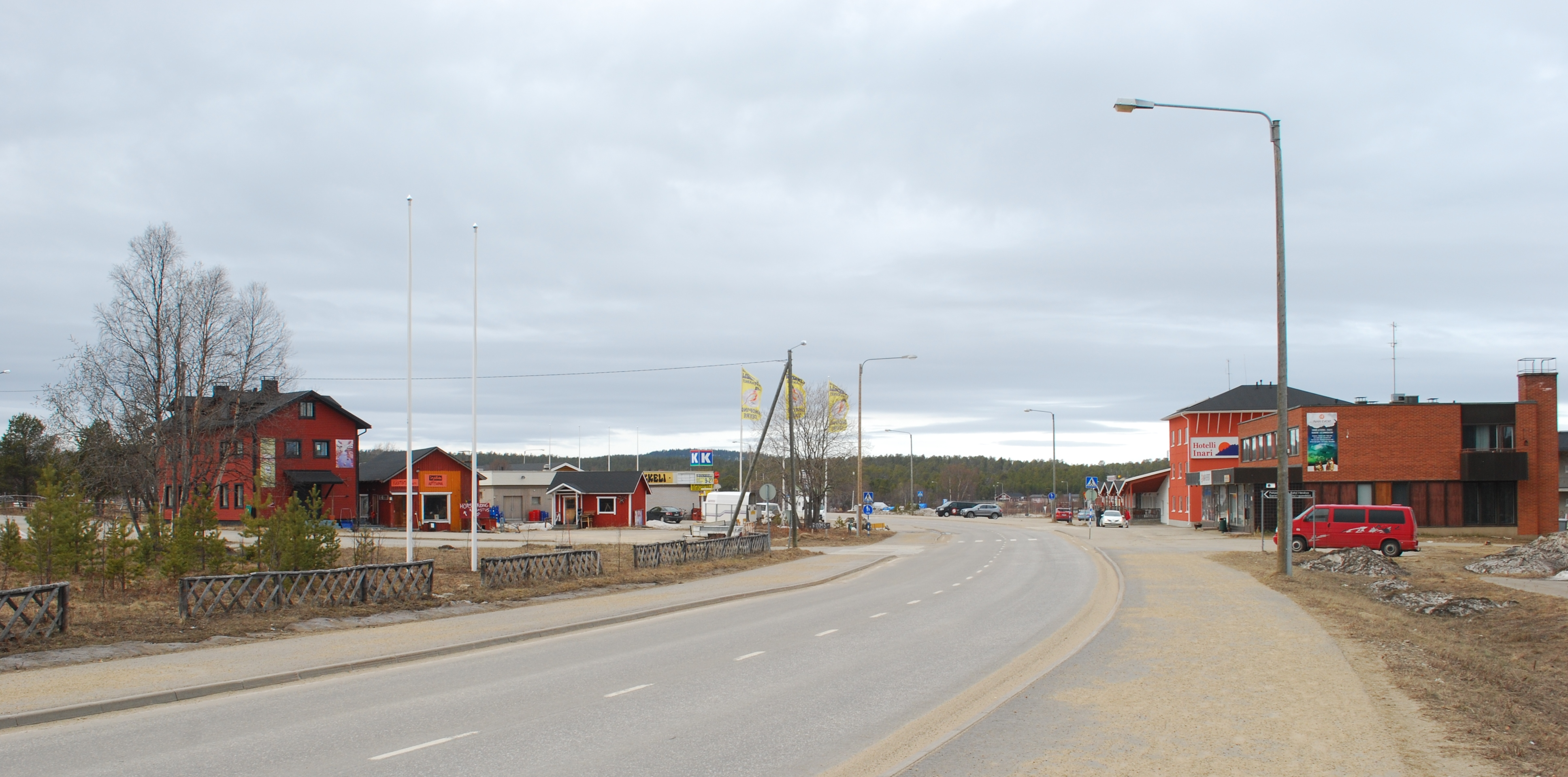 From Inari village, Lappland, Finland